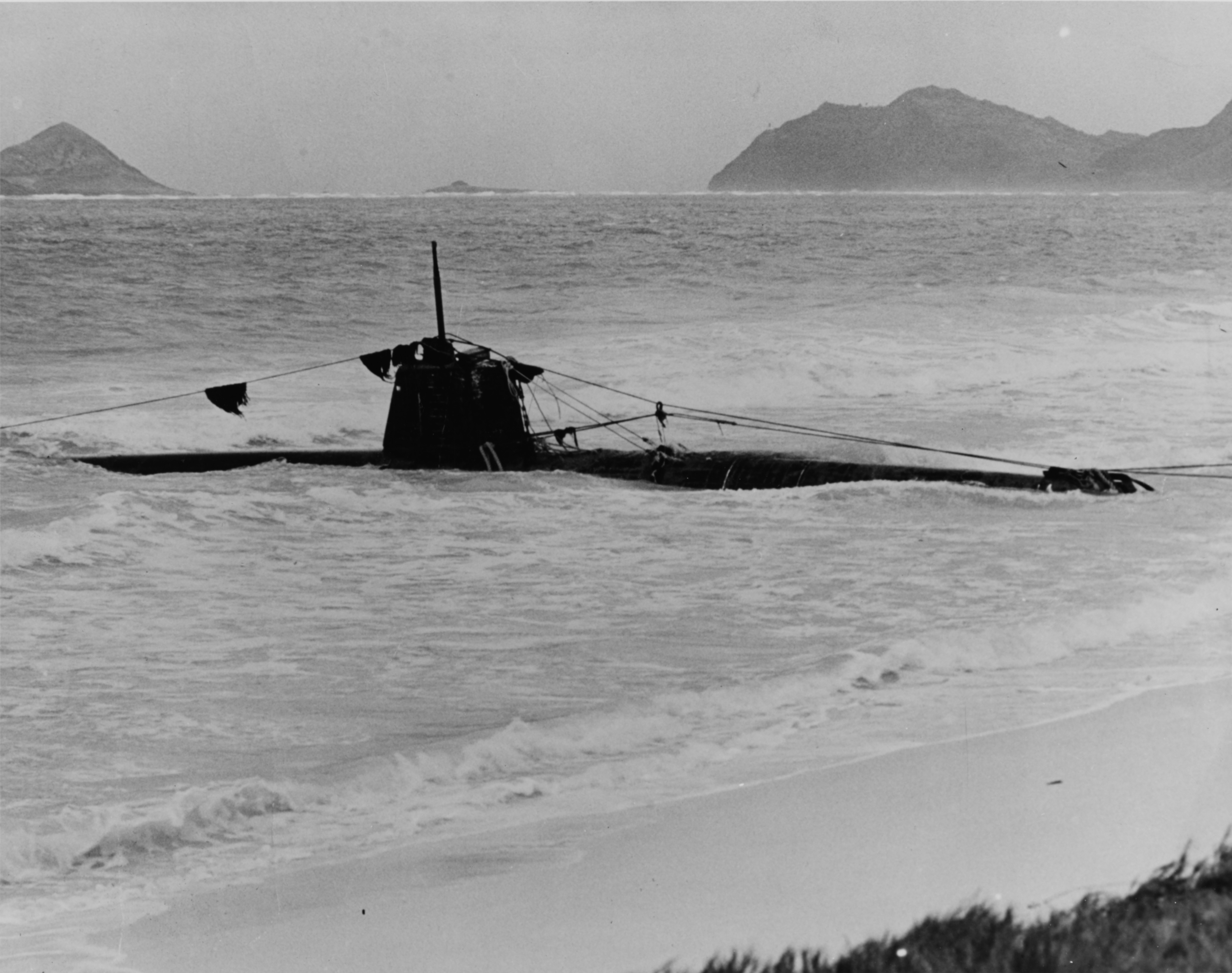 HA-19 Japanese midget submarine grounded on an Oahu Beach, in December 1941 (cropped). Currently on display at the National Museum of the Pacific War in Fredericksburg, Texas.